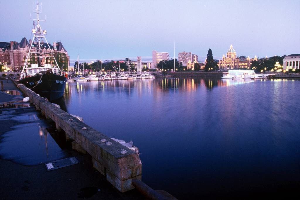 Inner harbour, downtown Victoria, BC, Canada. Domed provincial legislature buildings outlined in lights, in right side background.